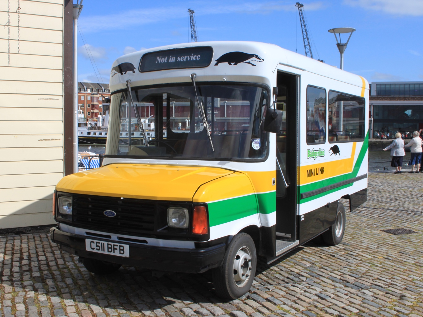 Preserved Badgerline 4511, a Ford Transit registered C511BFB, is an example of one of their large fleet of minibuses that was in use in the 1980s.